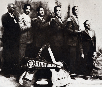 photo of Sexteto Boloña, probably taken between recording sessions, NYC October 1926